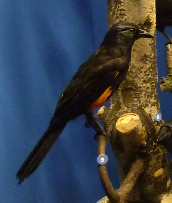 Red-bellied Grackle (Hypopyrrhus pyrohypogaster)